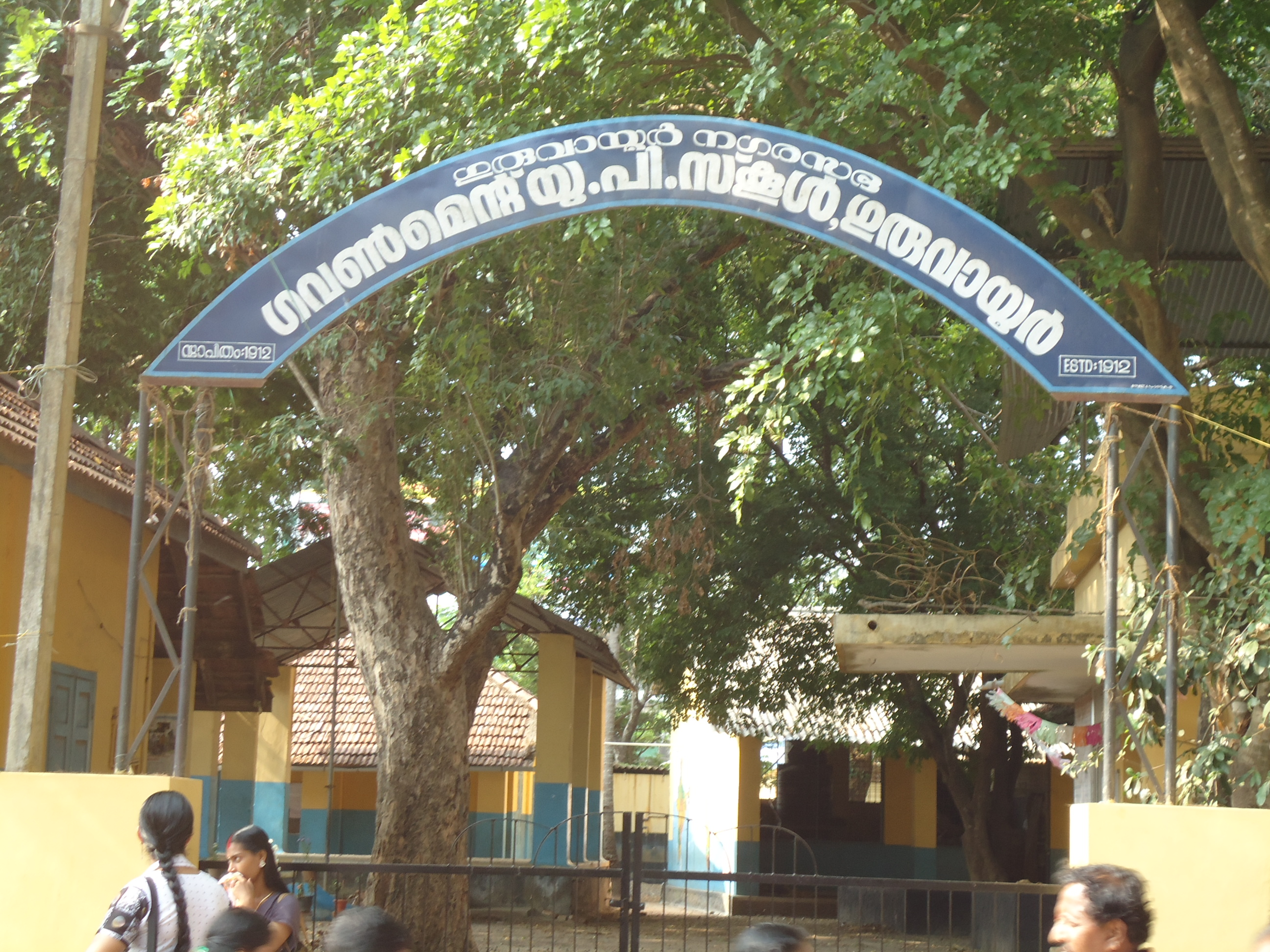 This media file is uploaded with Malayalam loves Wikimedia event.